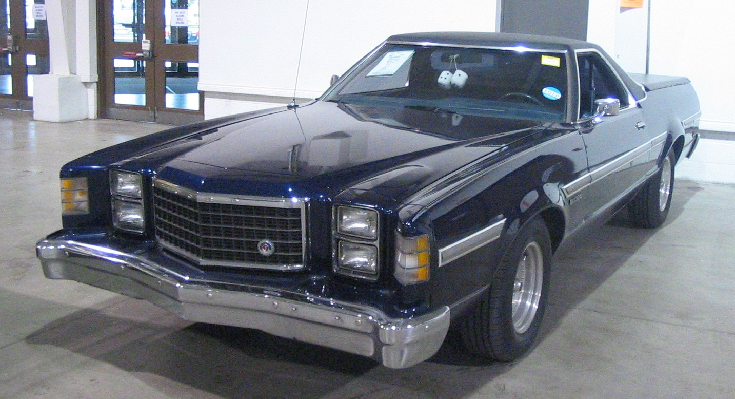 1977 Ford Ranchero photographed in Mississauga, Ontario, Canada at the Toronto Classic Car Auction of spring 2012.